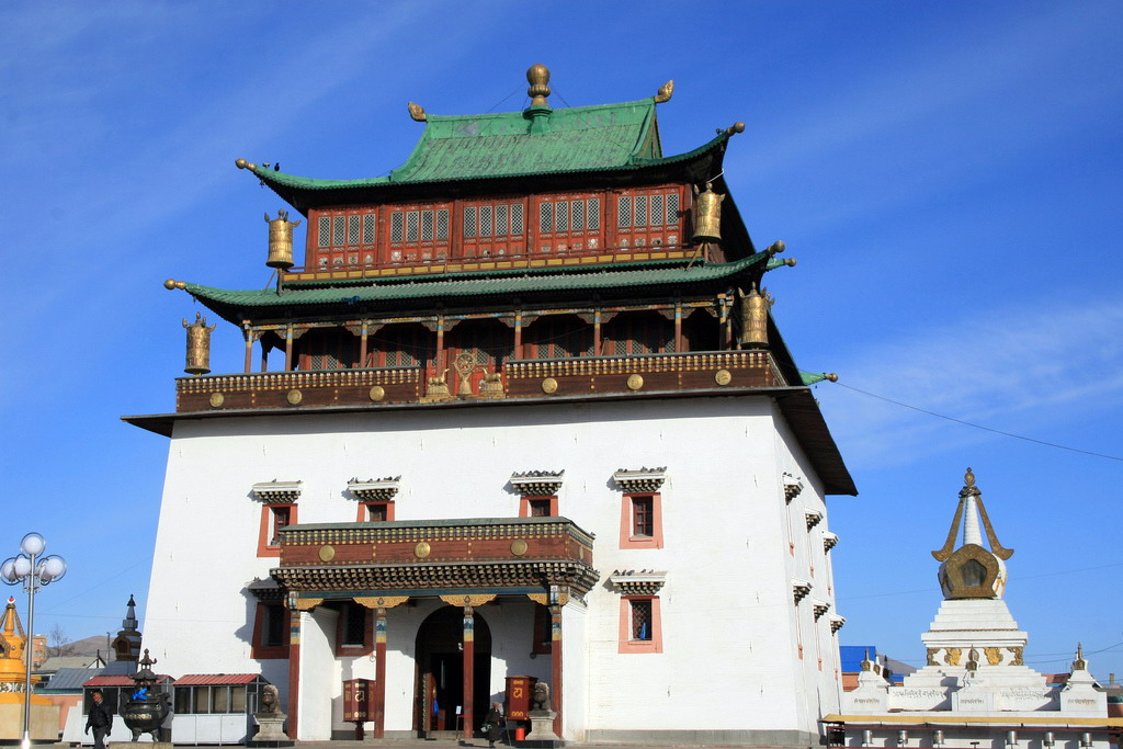 Also known as Gandan Khiid, this magnificent monastery complex in the heart of Ulaanbaatar is crowned by this tall edifice, which houses an 80-foot tall statue of the Buddha, known here as the Megzhid Janraisig.